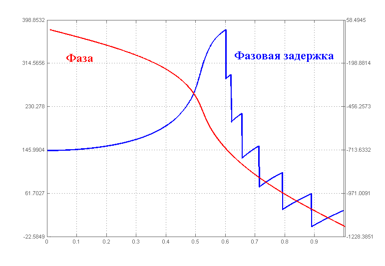 Frequency domain phase signals of a Chebyshev type II filter